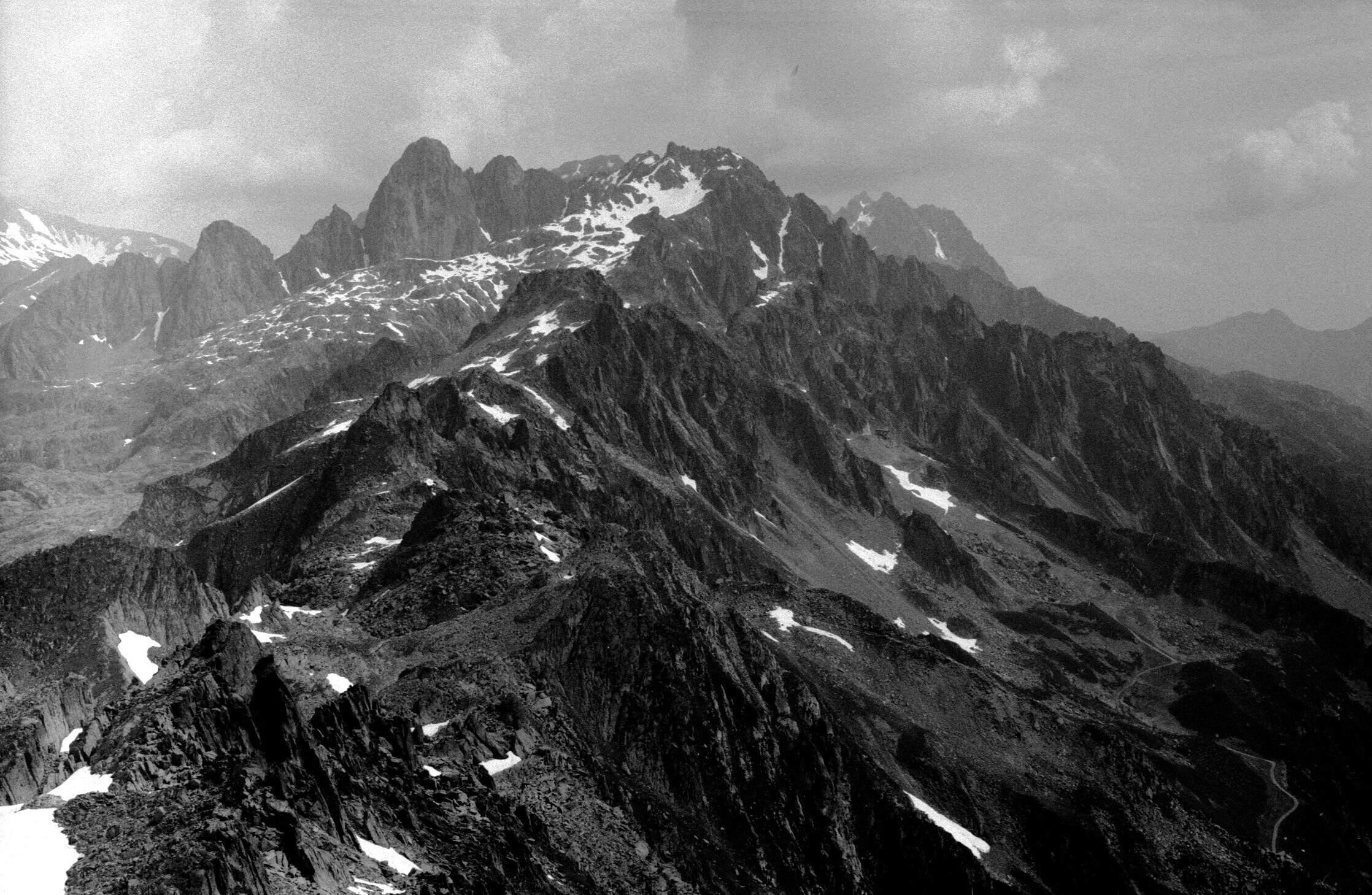 View from the Brevent